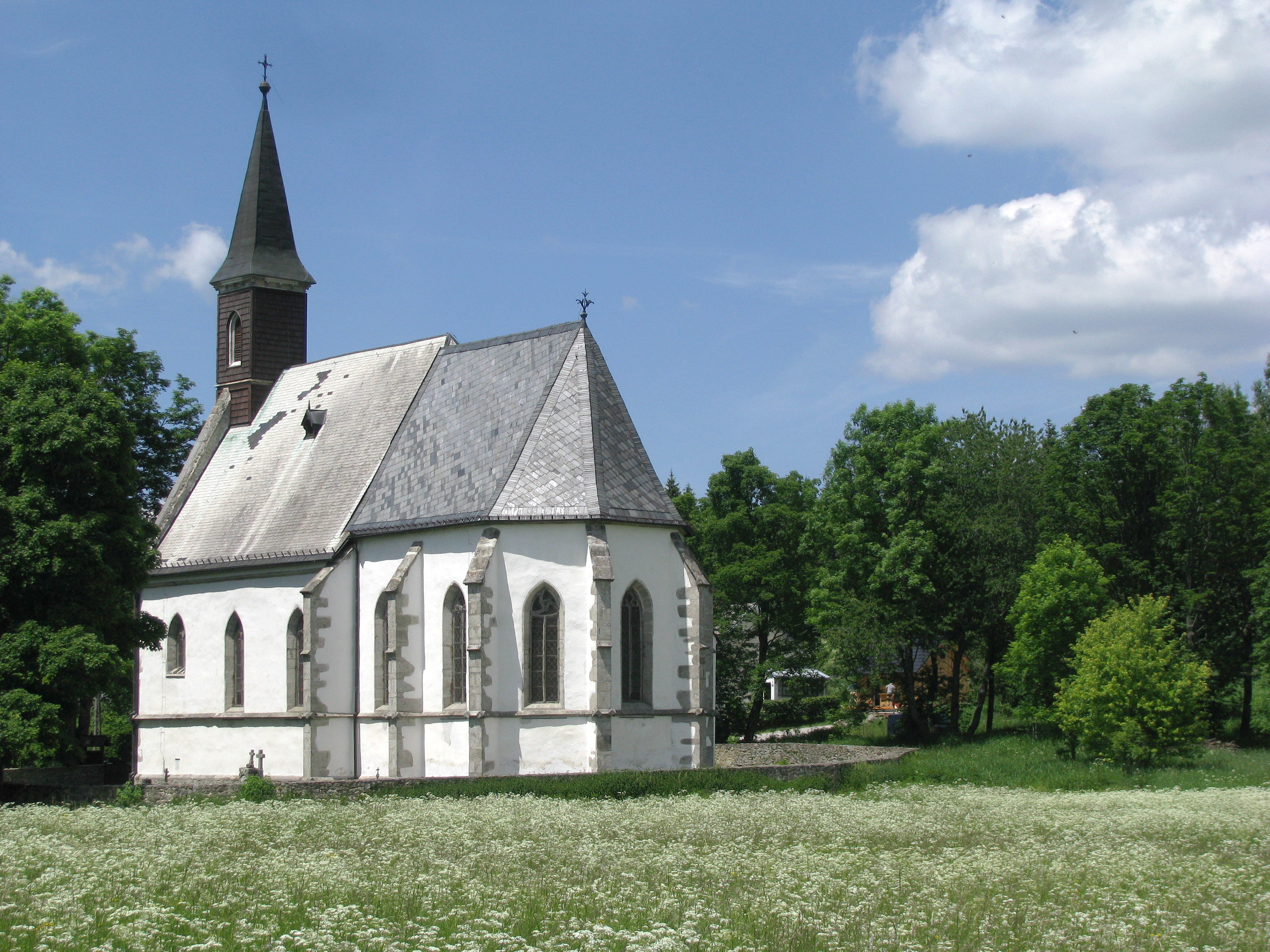 Church of Corpus Christi in Svatý Tomáš